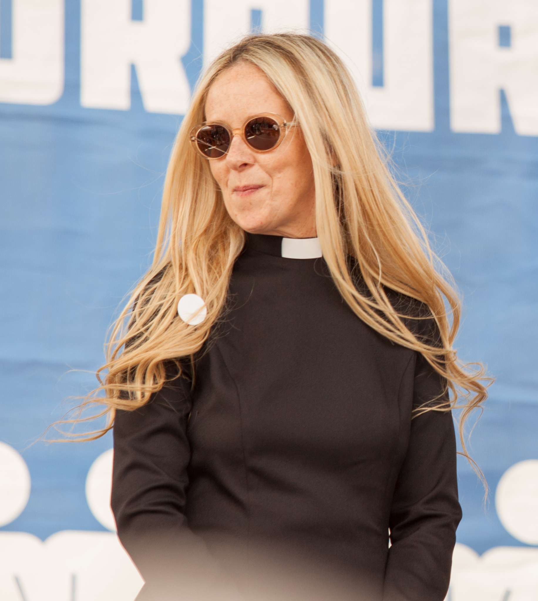 China Kantner speaks at the March For Our Lives rally in San Francisco.